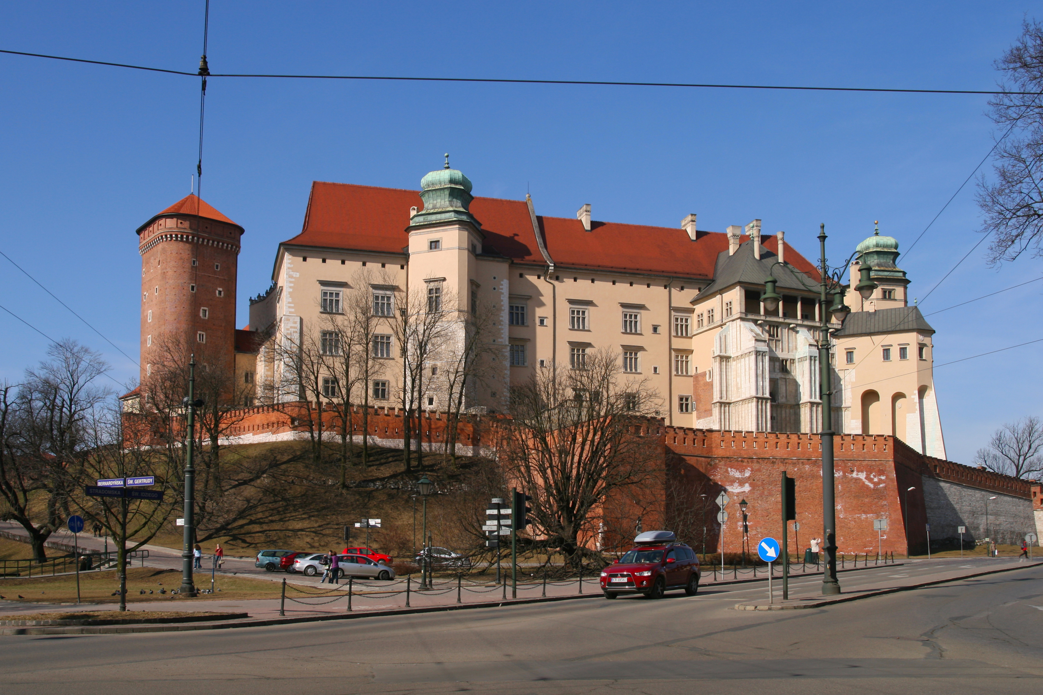 Royal Castle on Wawel Hill in Kraków (Poland).